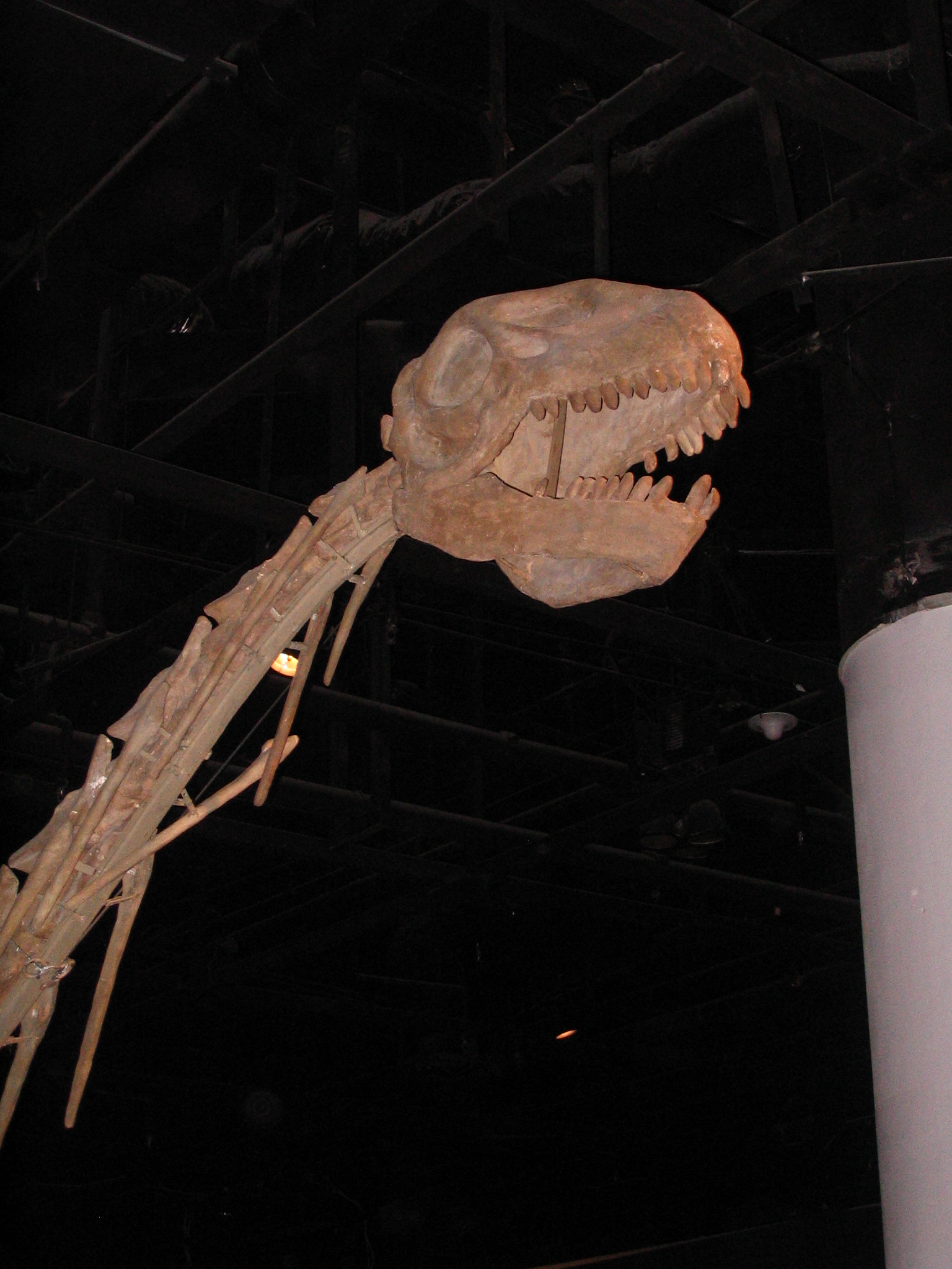 Datousaurus. Fossil in Shanghai Science & Technology Museum